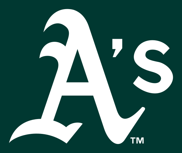 Oakland Athletics cap logo